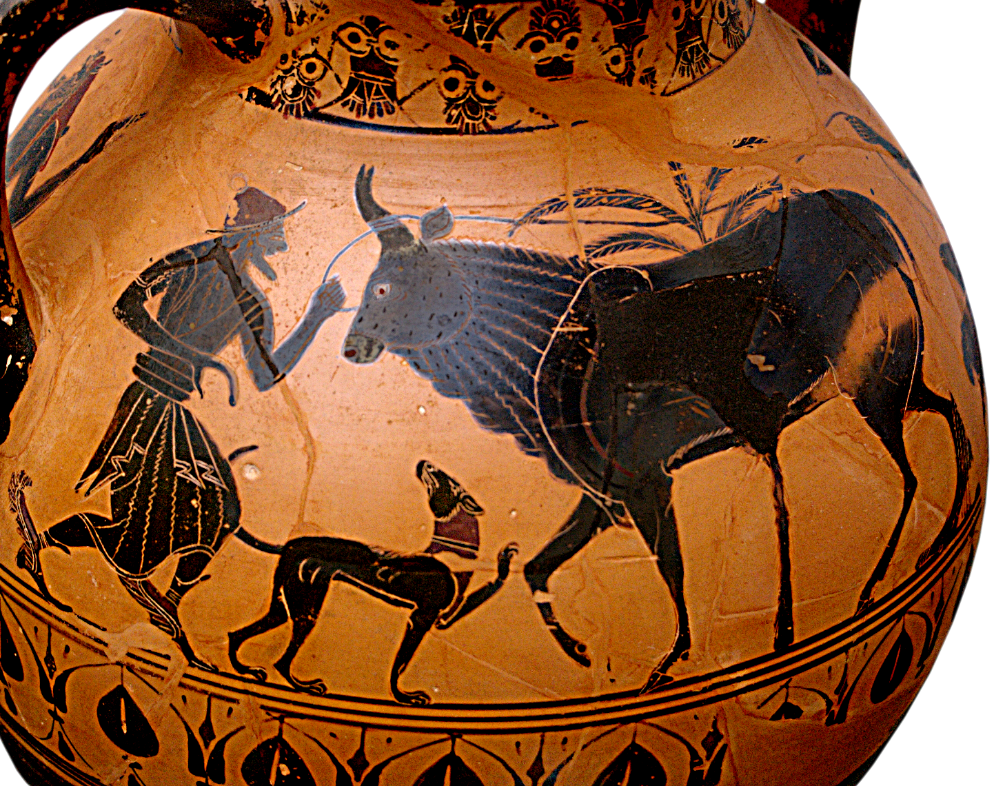 Side A from a Greek black-figure amphora, 540–530 BCE depicting Hermes and Io (as a cow). The original photo was taken by User:Bibi Saint-Pol, own work, 2007-02-09 This version of the image has been resized for deeper dpi, slightly cropped, digitally edited to reduce the glare and the background changed to solid white.